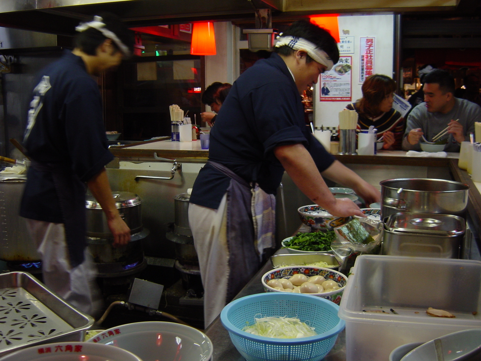 Ramen shop, Yokohama, Japan